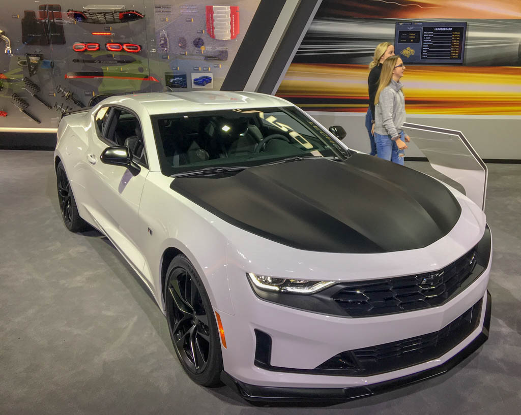 2019 North American International Auto Show (NAIAS) in Detroit Michigan